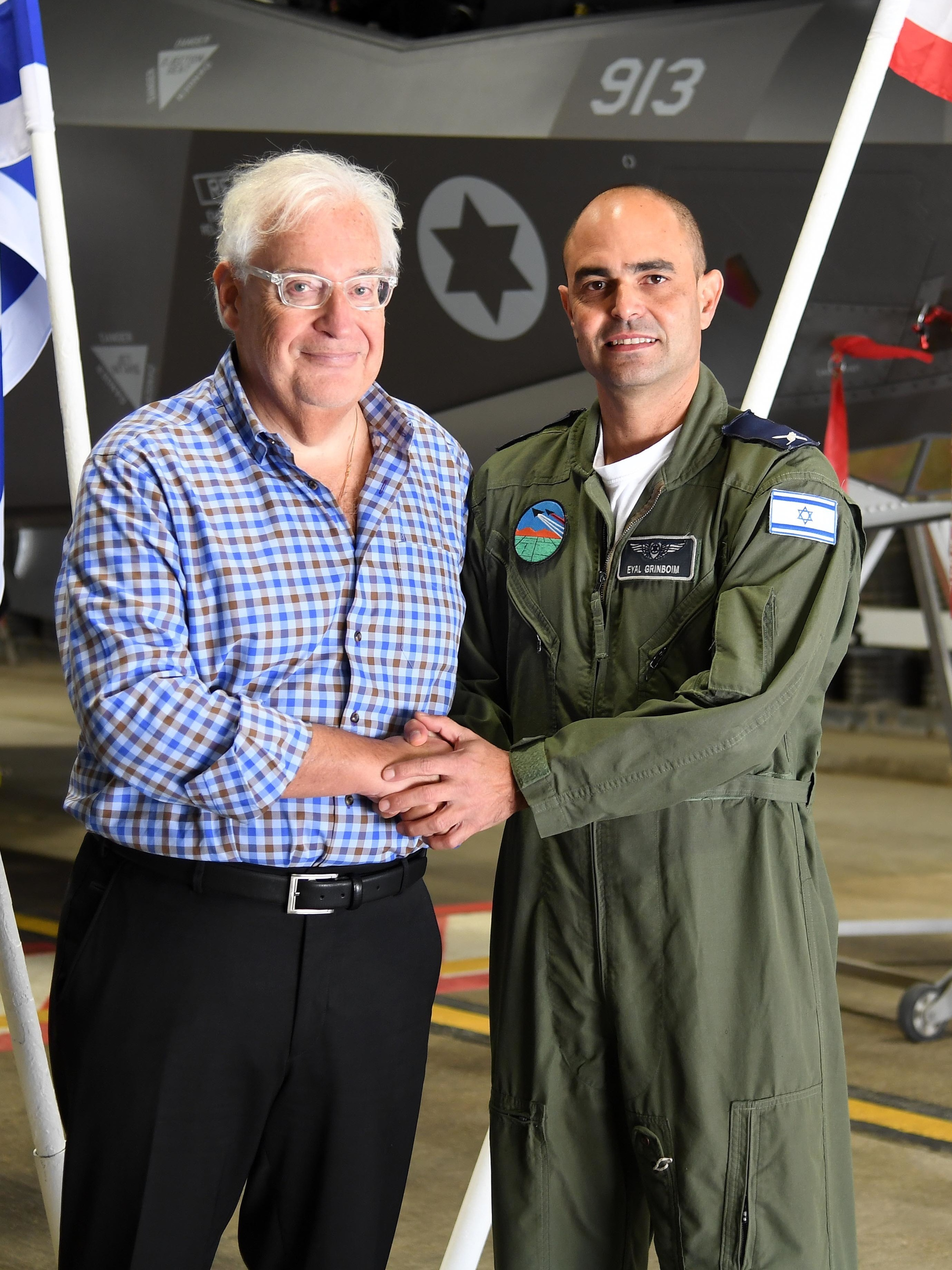 U.S. Ambassador to Israel David Friedman visited Nevatim Air Base in Southern Israel and toured the Israeli Air Force squadron operating the F-35i “Adir,” Monday, December 11, 2017. He was accompanied by commander of the base Brig. Gen Eyal Grinboim, and Squadron 140 Commander “Y.”